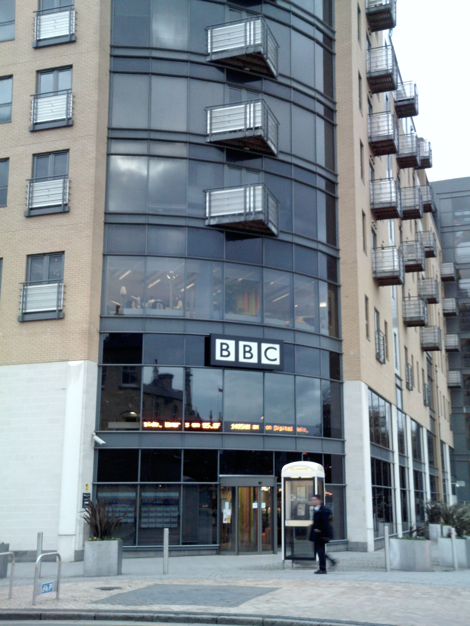 The BBC buildings in Kingston upon Hull, East Riding of Yorkshire. Taken on the afternoon of Tuesday the 24th of November 2009.